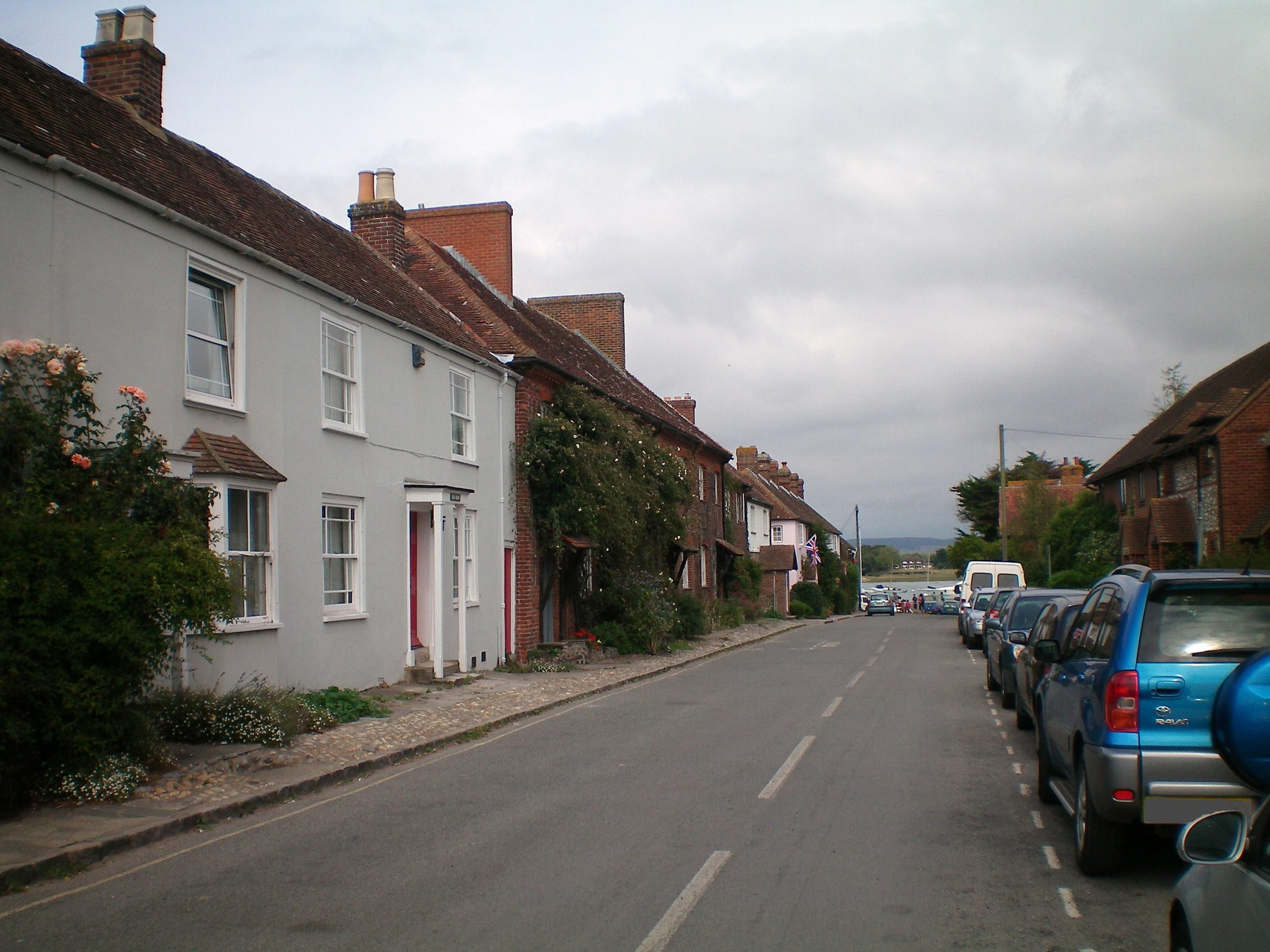 West Itchenor, West Sussex, England.